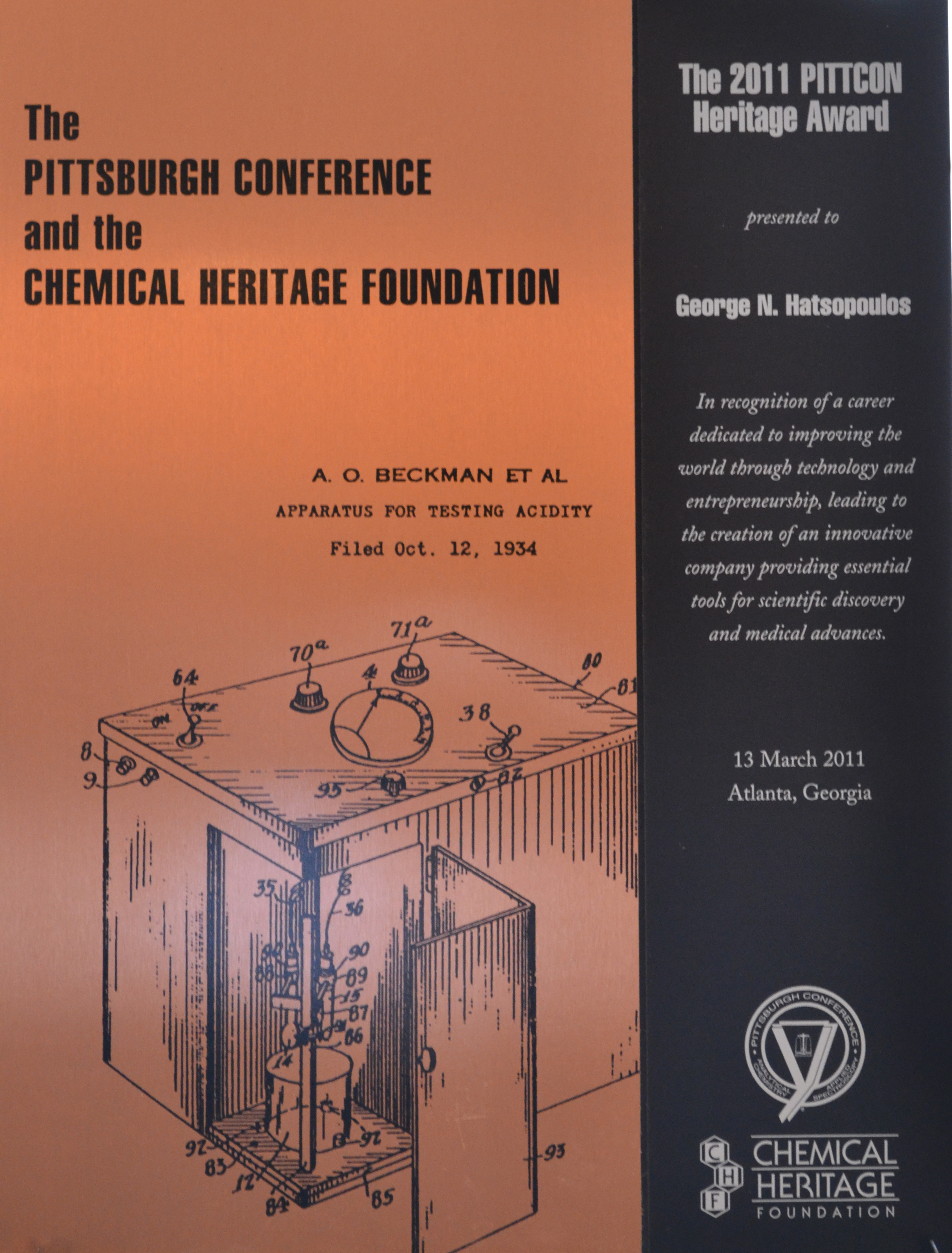 Photograph of the Pittcon Heritage Award, as presented to George Hatsopoulos at the 2011 Heritage Day Awards, Chemical Heritage Foundation, Philadelphia, PA, USA.